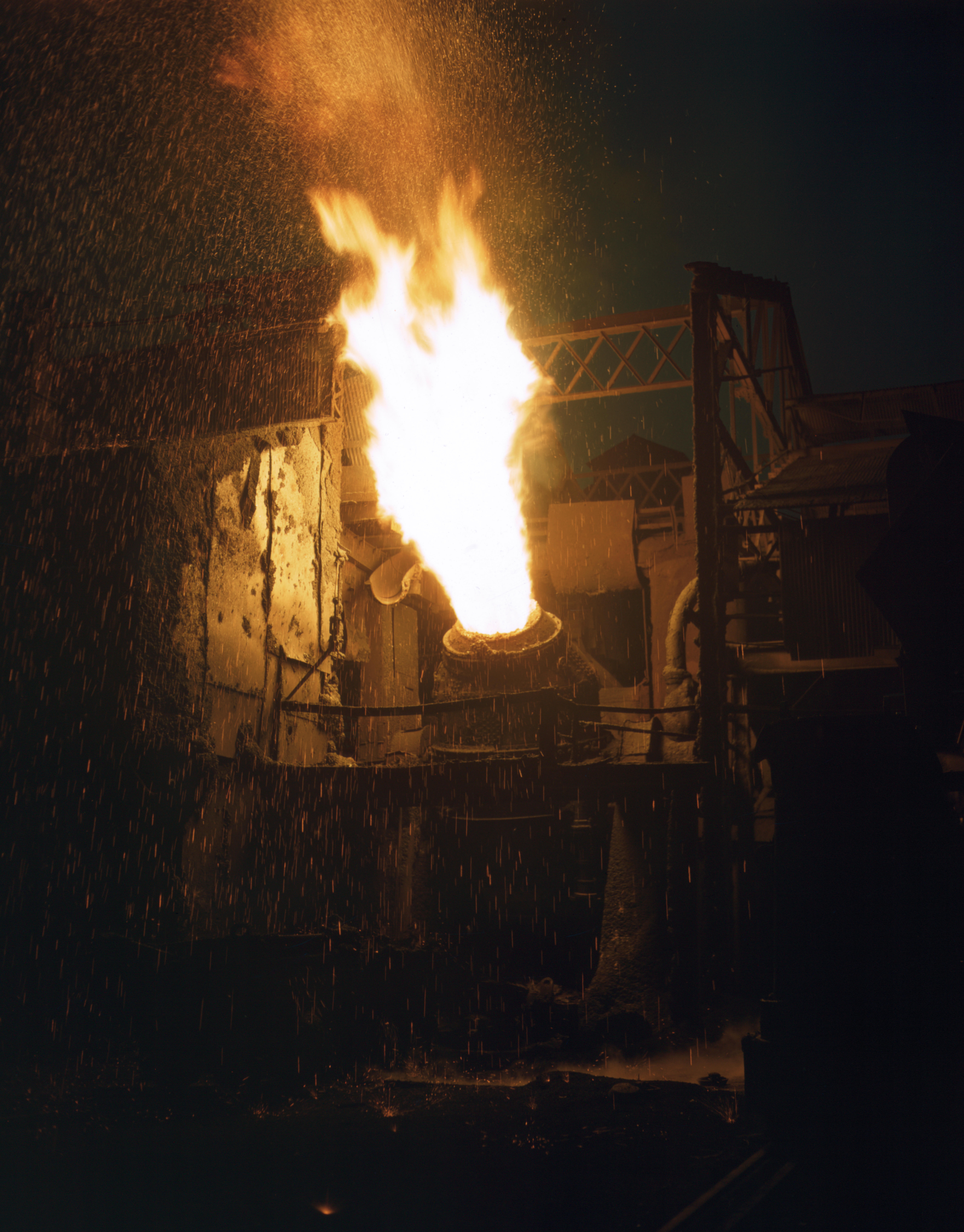 A scene in a steel mill, Republic Steel, Youngstown, Ohio. Molten iron is blown in an Eastern Bessemer converter to change it to steel for war essentials.